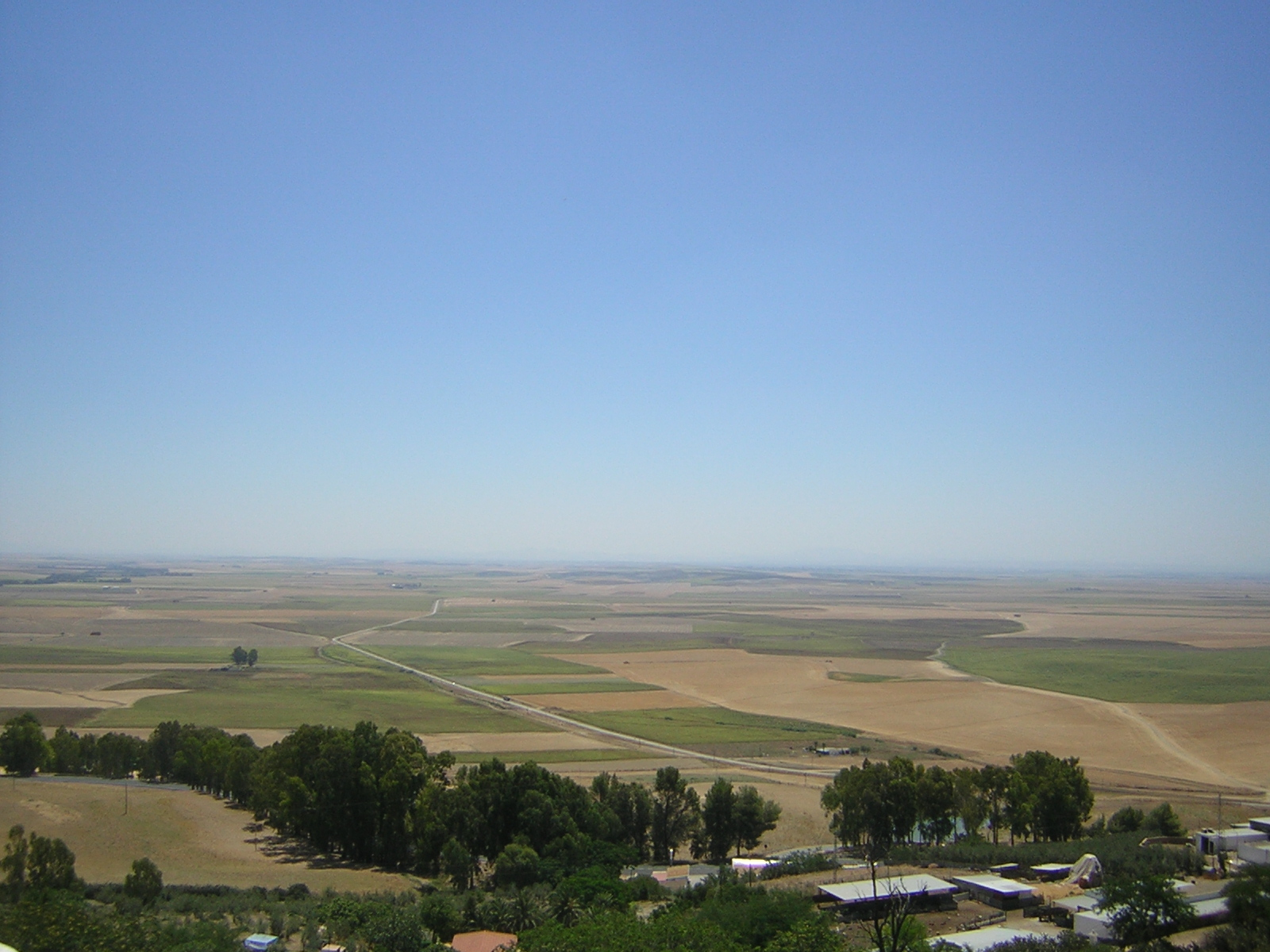 Fields south of Carmona, Spain